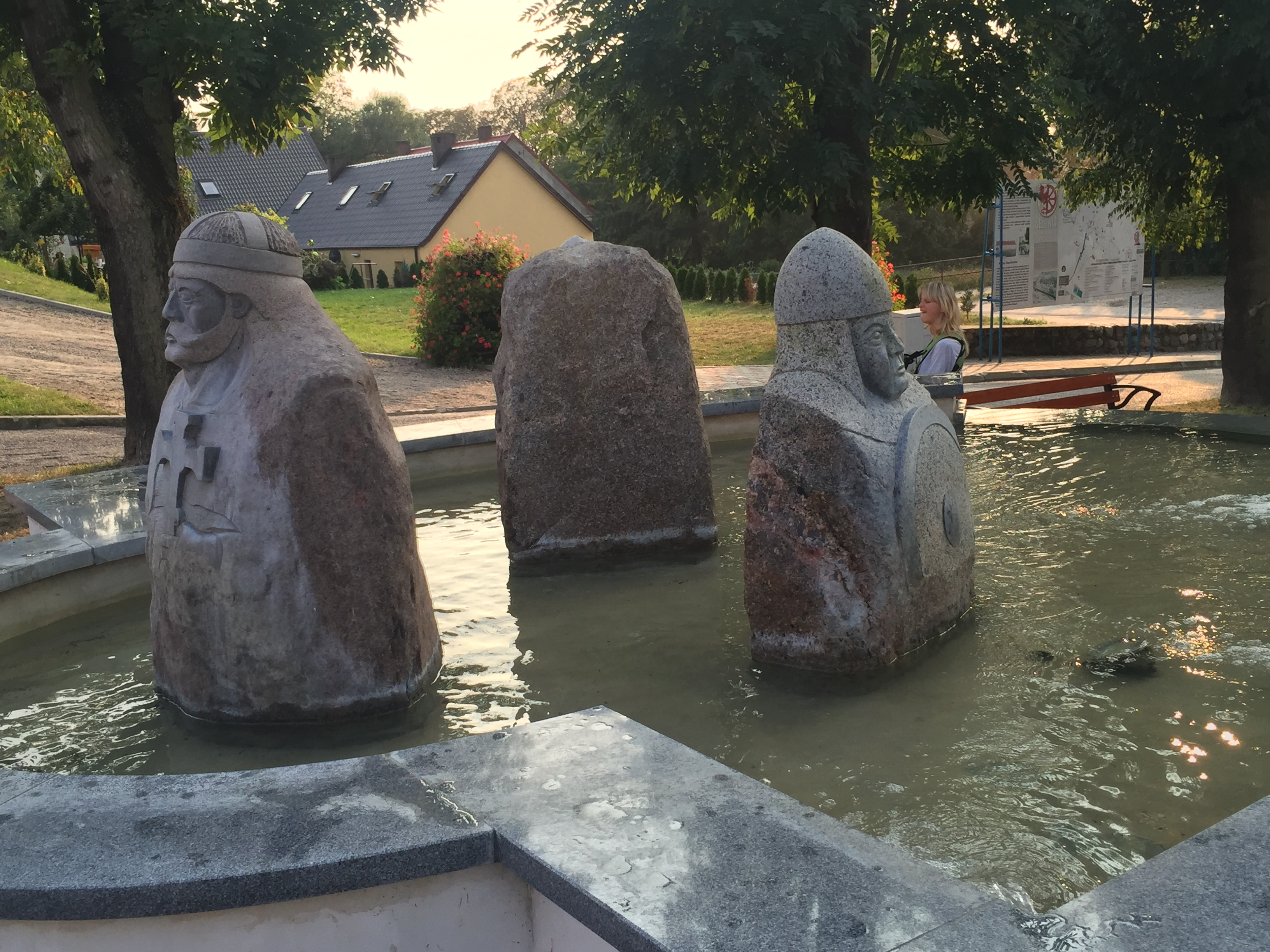 Monument to the Warriors, Cedynia, Poland in September 2016